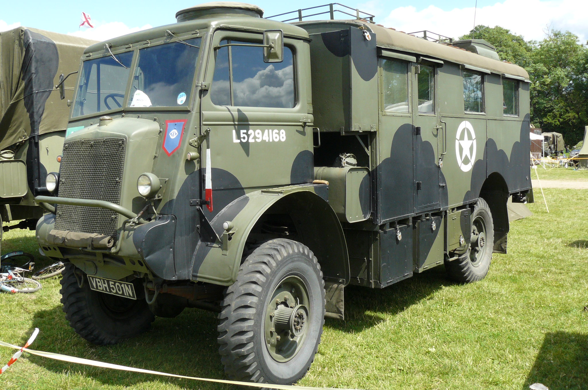 Bedford QLR, seen at War & Peace show 2011, UK